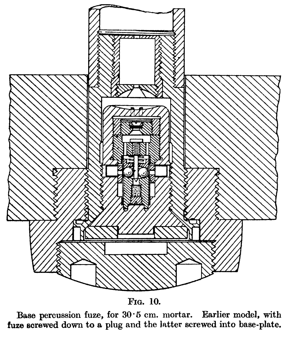 Diagram of Base Percussion fuze, early model, for Austro-Hungarian Škoda 305 mm mortar, World War I.